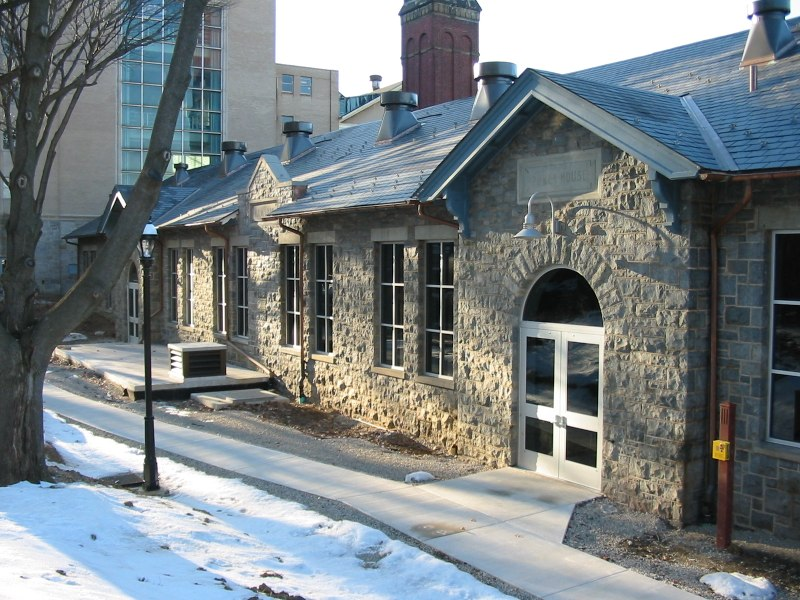 Photo of the south-facing exterior, from the south-east corner (facing north-west) post renovation. (March, 2003).